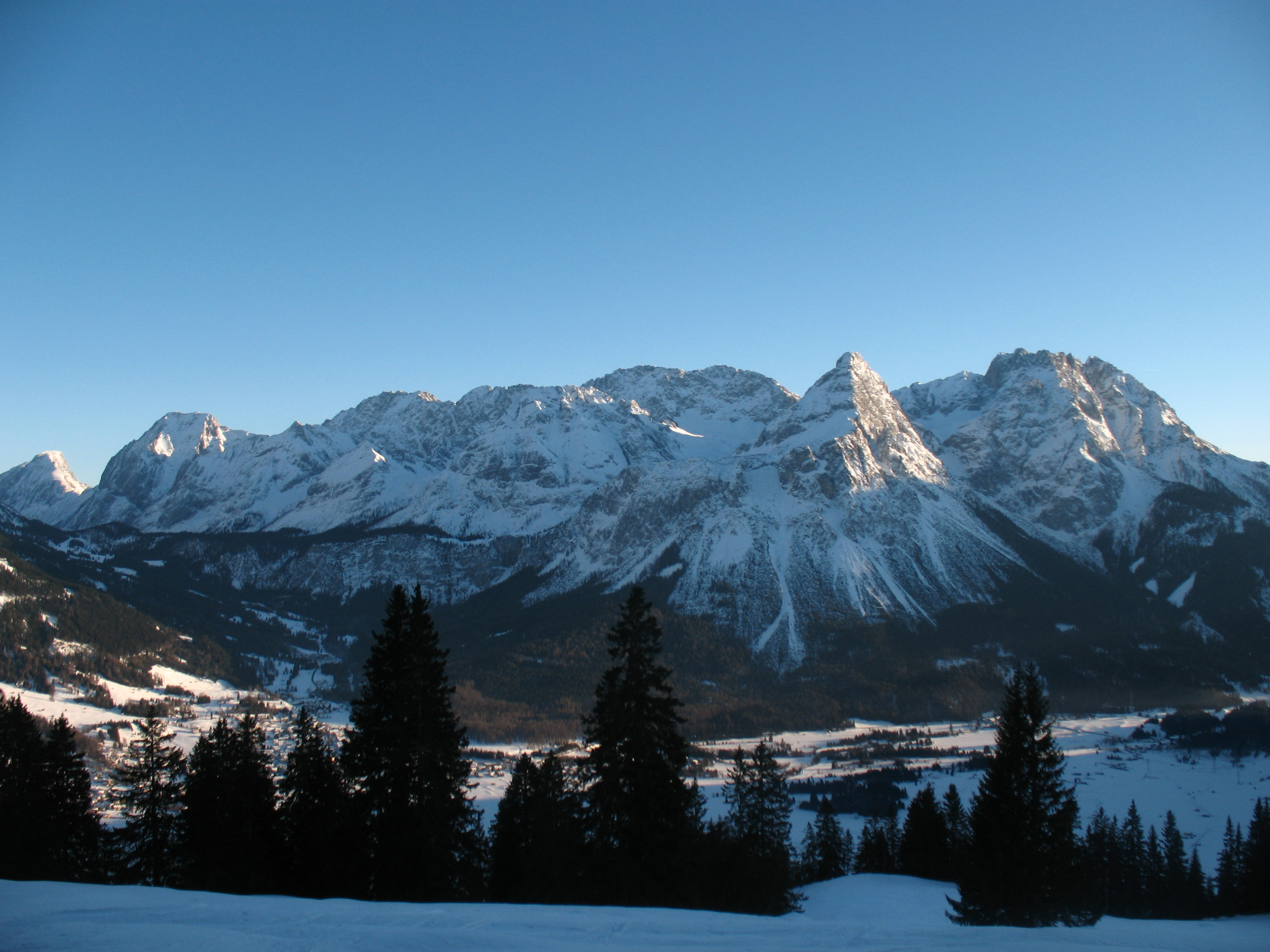 Northside of the Mieminger mountain range.